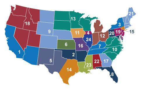 Unknown, NJCAA, Fair use because found on public domain and giving credit to NJCAA for redistribution